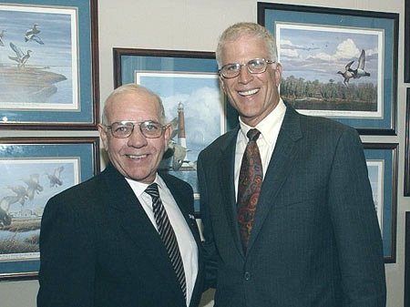 US Congressman Jim Saxton (R - New Jersey) meets with actor Ted Danson.